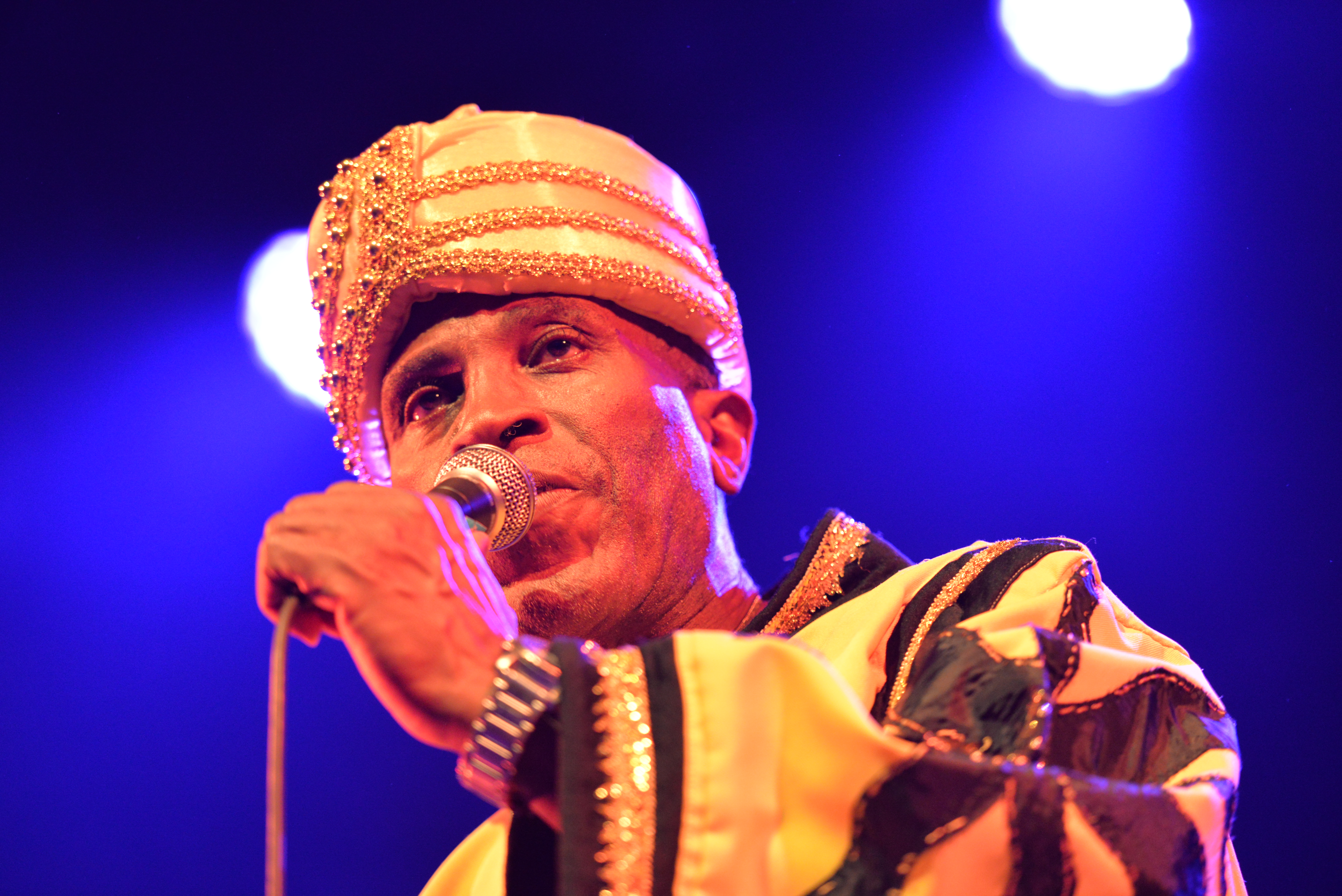 Eek-A-Mouse in concert Belgium Leuven Het Depot May 7 2019